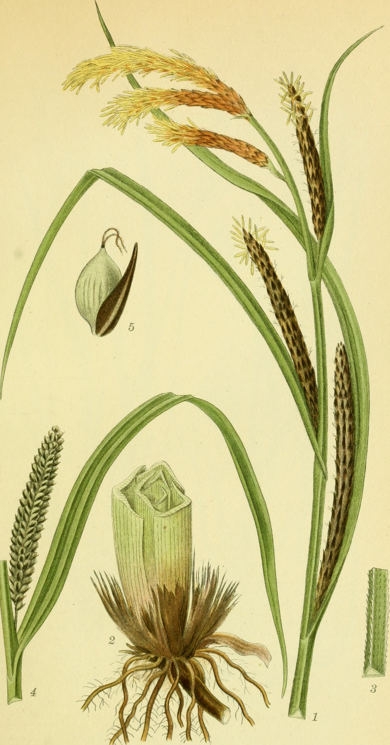 Title: Billeder af nordens flora Year: 1917 (1910s) Authors: Mentz, August, 1867-1944; Ostenfeld, C. H. (Carl Hansen), 1873-1931 Subjects: Plants; Plants; Plants Publisher: København, G. E. C. Gad's forlag Text Appearing Before Image: ' Text Appearing After Image: 440 NIKKENDE STAR, carex gracilis.